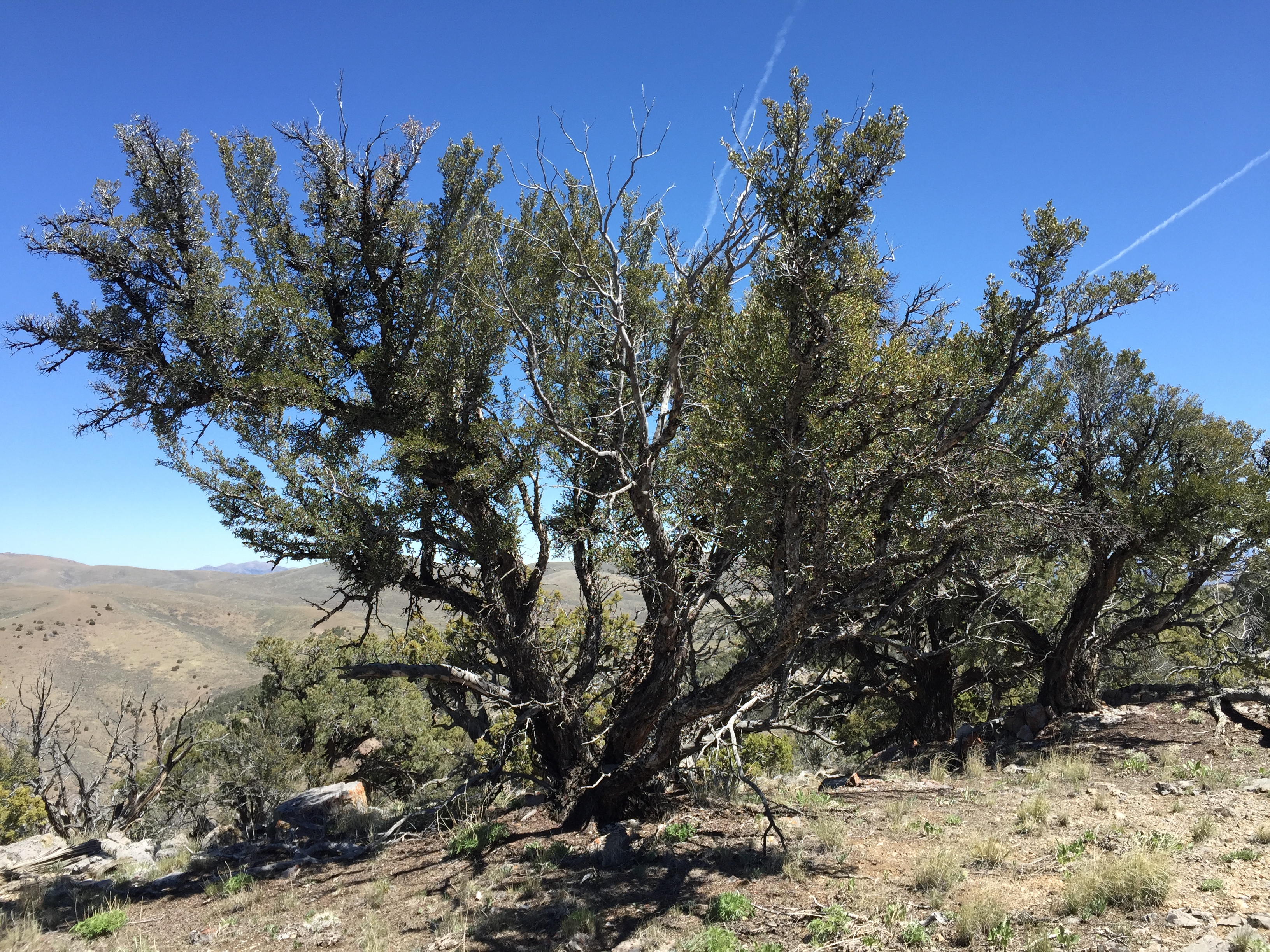 An older Mountain Mahogany on the north wall of Maverick Canyon, Nevada